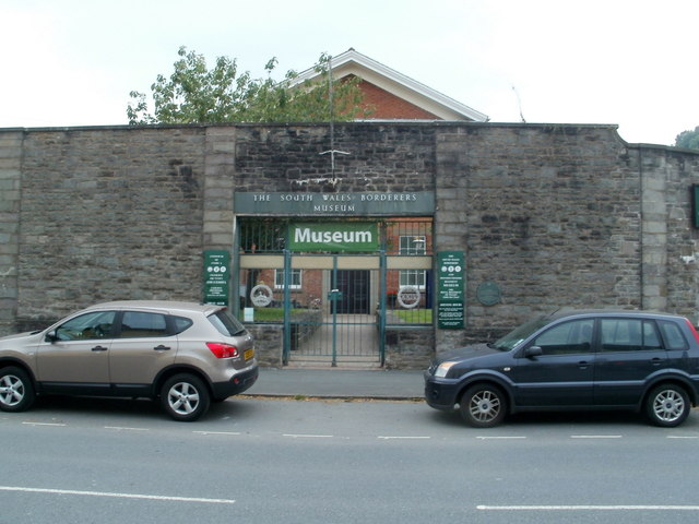 Entrance to the South Wales Borderers Museum, Brecon